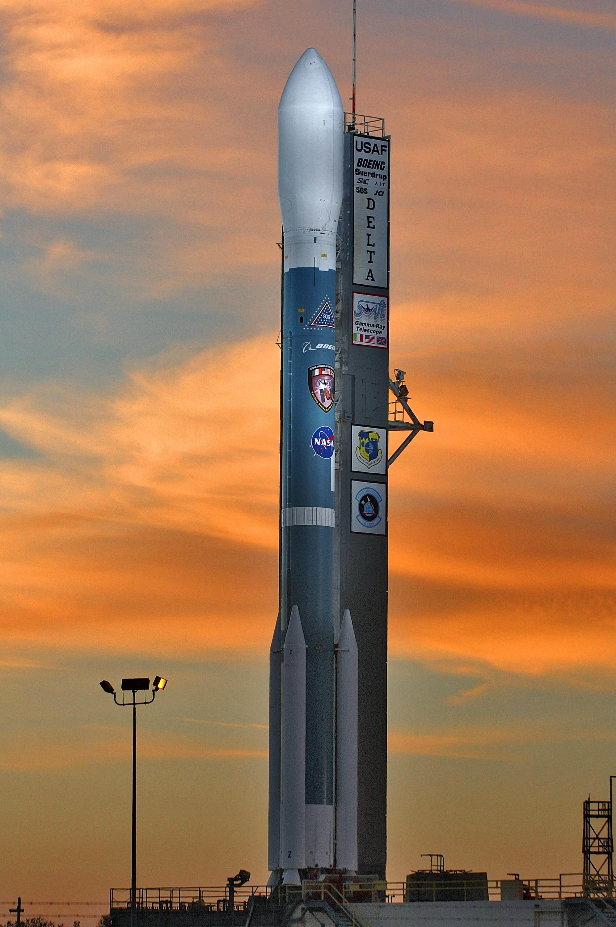 The Boeing Delta II launch vehicle for NASA’s Swift spacecraft is silhouetted against a rosy sky at sunrise, waiting for liftoff scheduled for 12:16:00.611 p.m. EST from Launch Pad 17-A on Cape Canaveral Air Force Station, Fla. Swift is a first-of-its-kind multi-wavelength observatory dedicated to the study of gamma-ray burst science. Its three instruments will work together to observe GRBs and afterglows in the gamma ray, X-ray, ultraviolet and optical wavebands.